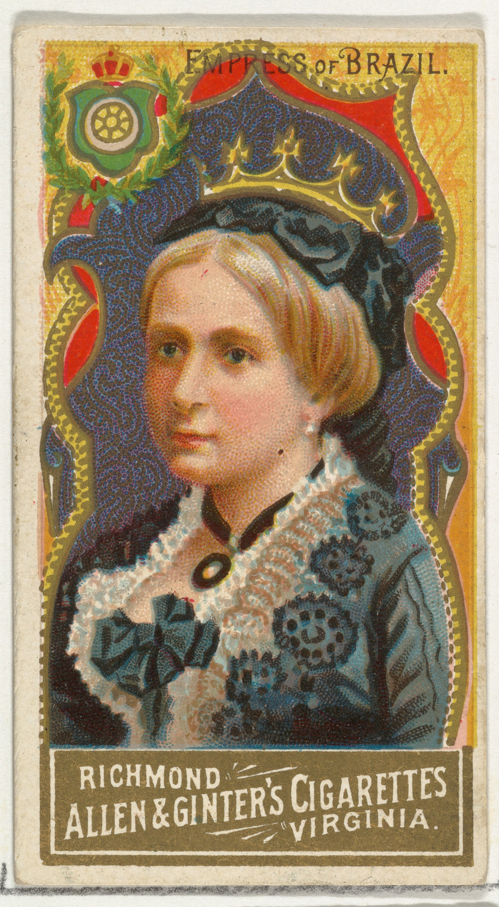 Print; Prints/Ephemera